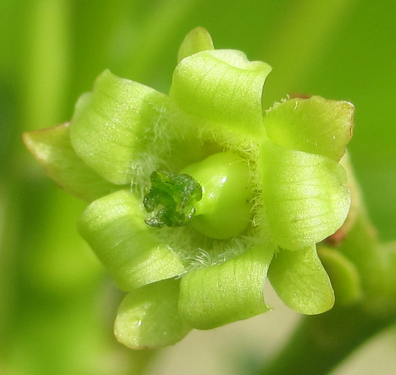 A female flower of Jatropha curcas (Euphorbiaceae). Pemba, Mozambique.